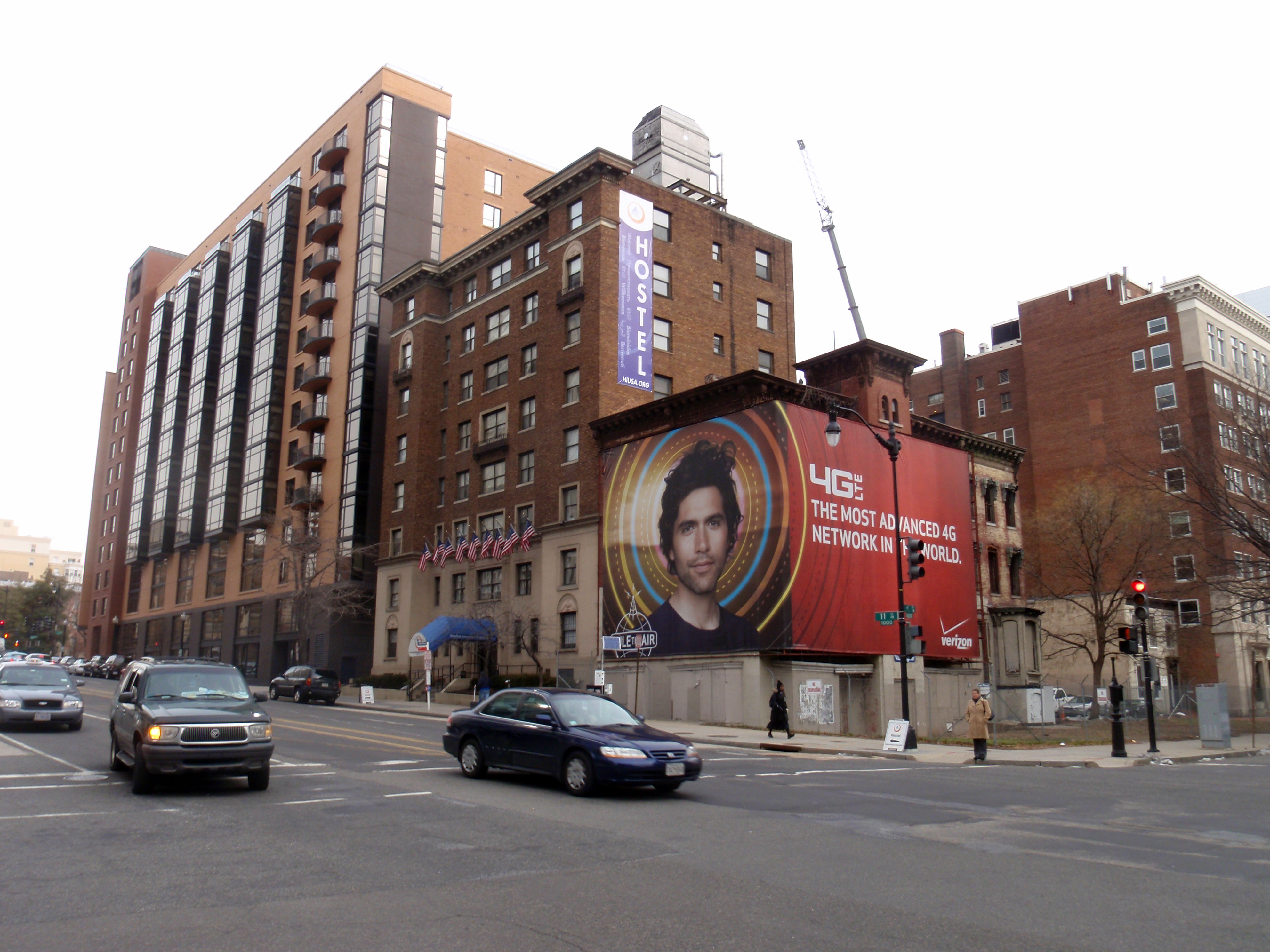 Hostelling International and other buildings on 11th St NW in Washington, DC